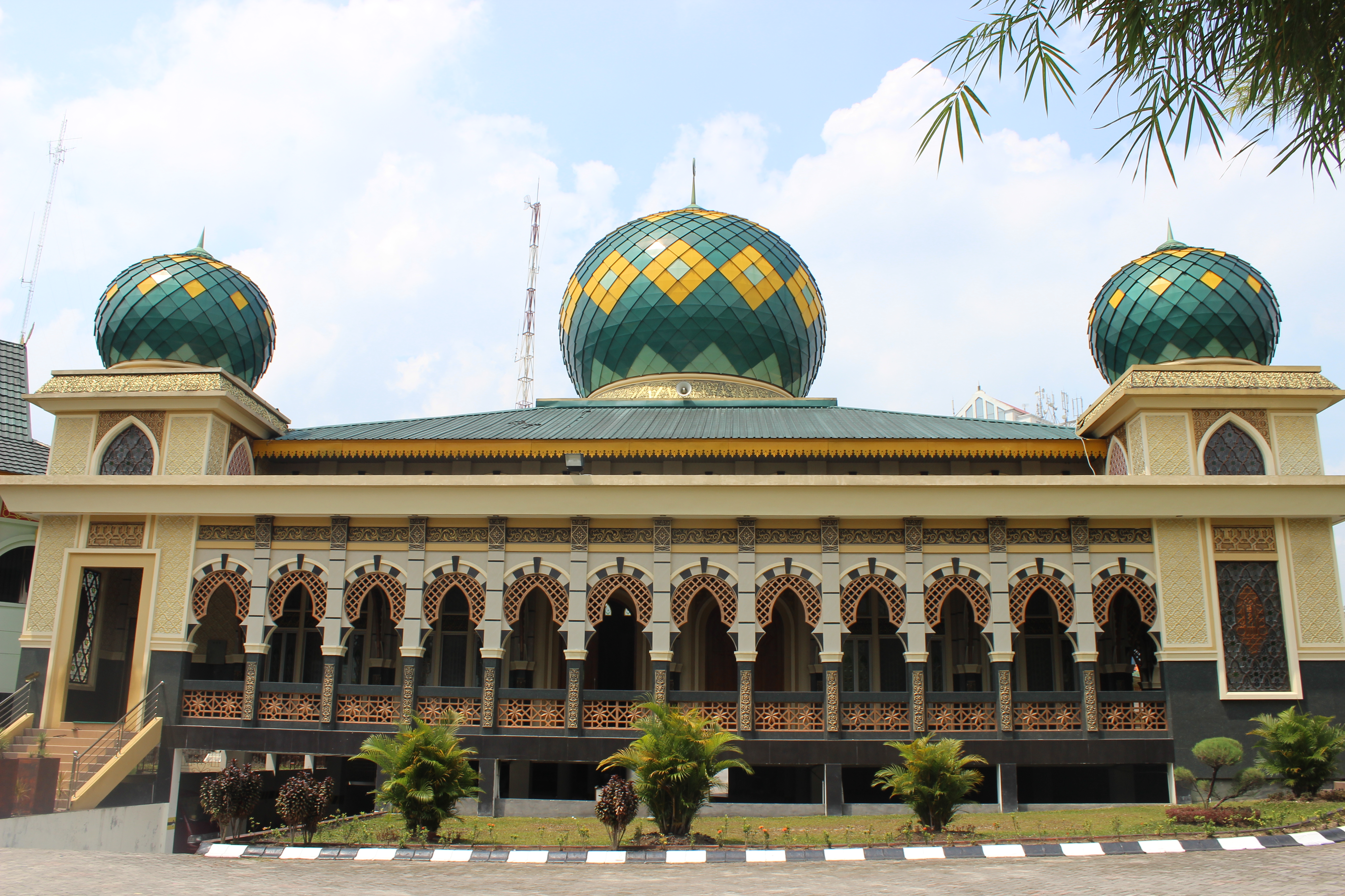 Masjid ar-Rahman, in downtown Pekanbaru, Riau